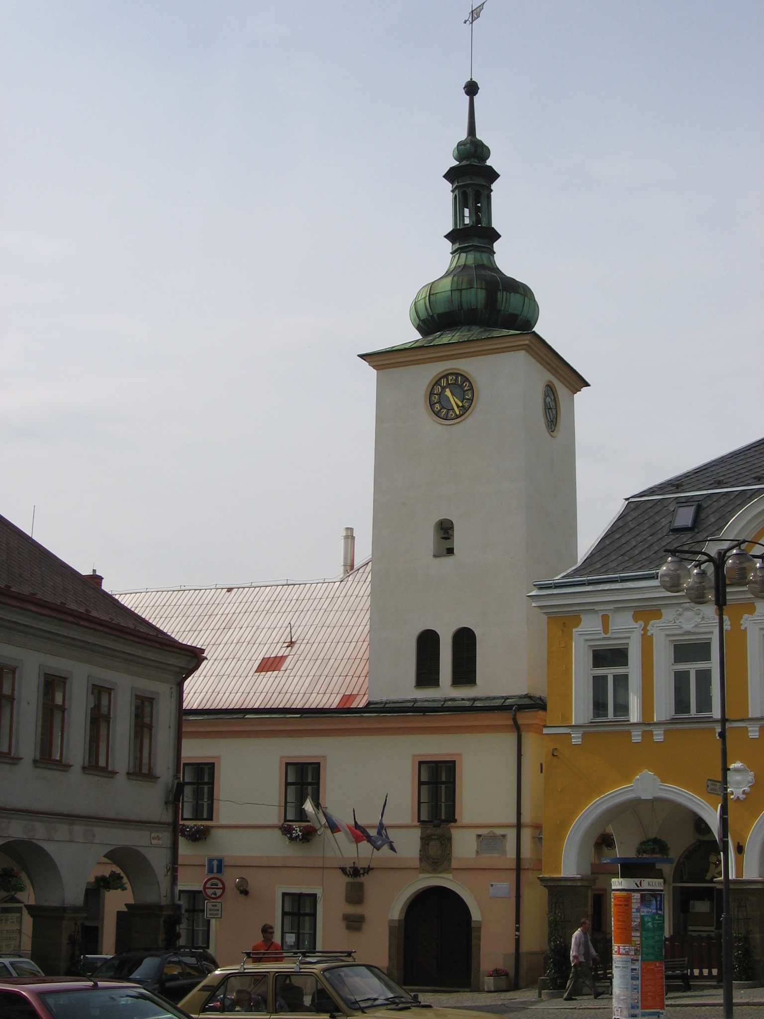 Town Hall in Ústí nad Orlicí (Czech Republic)